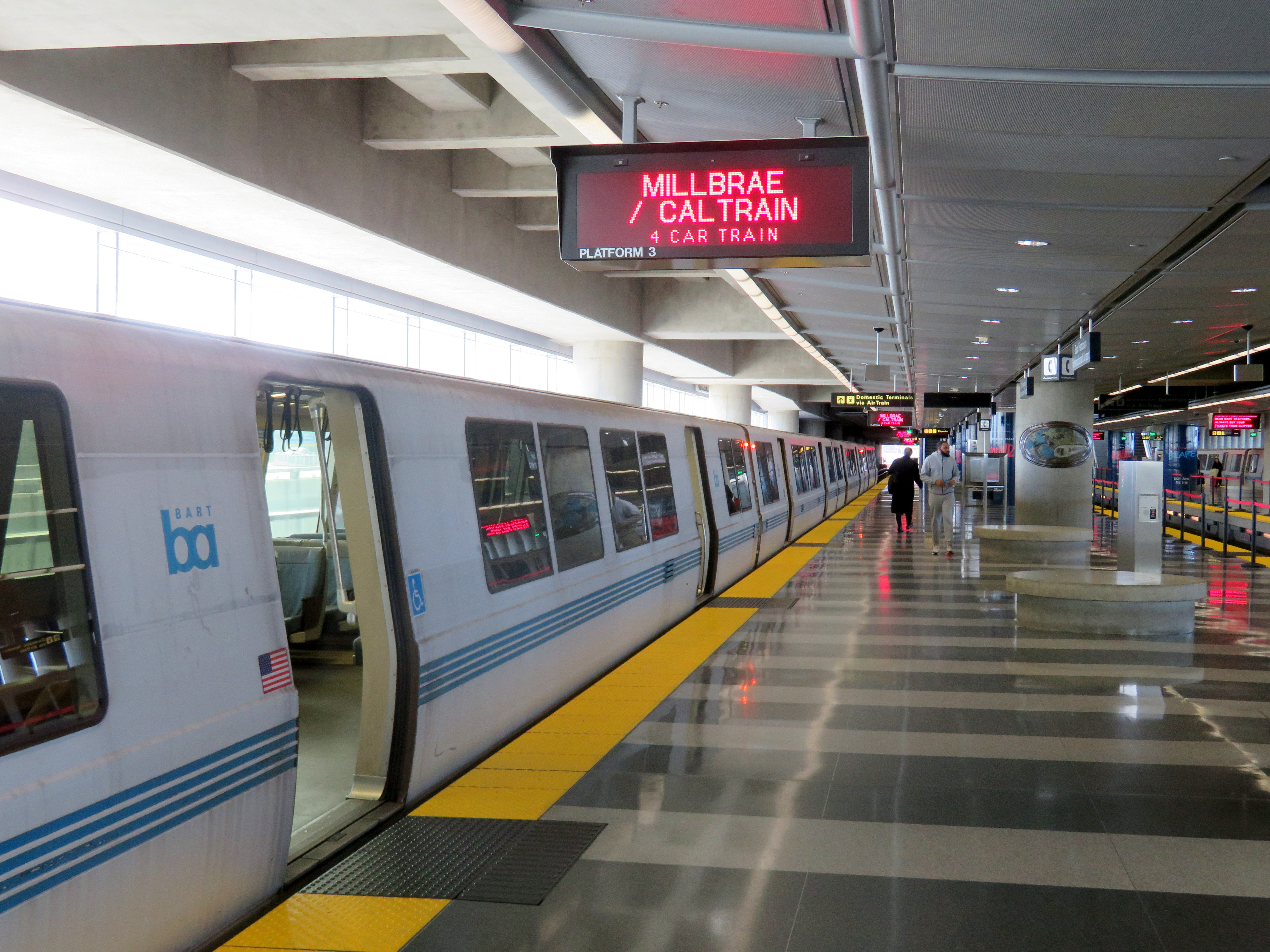 SFO-Millbrae Line (Purple Line) train at San Francisco International Airport station in February 2019